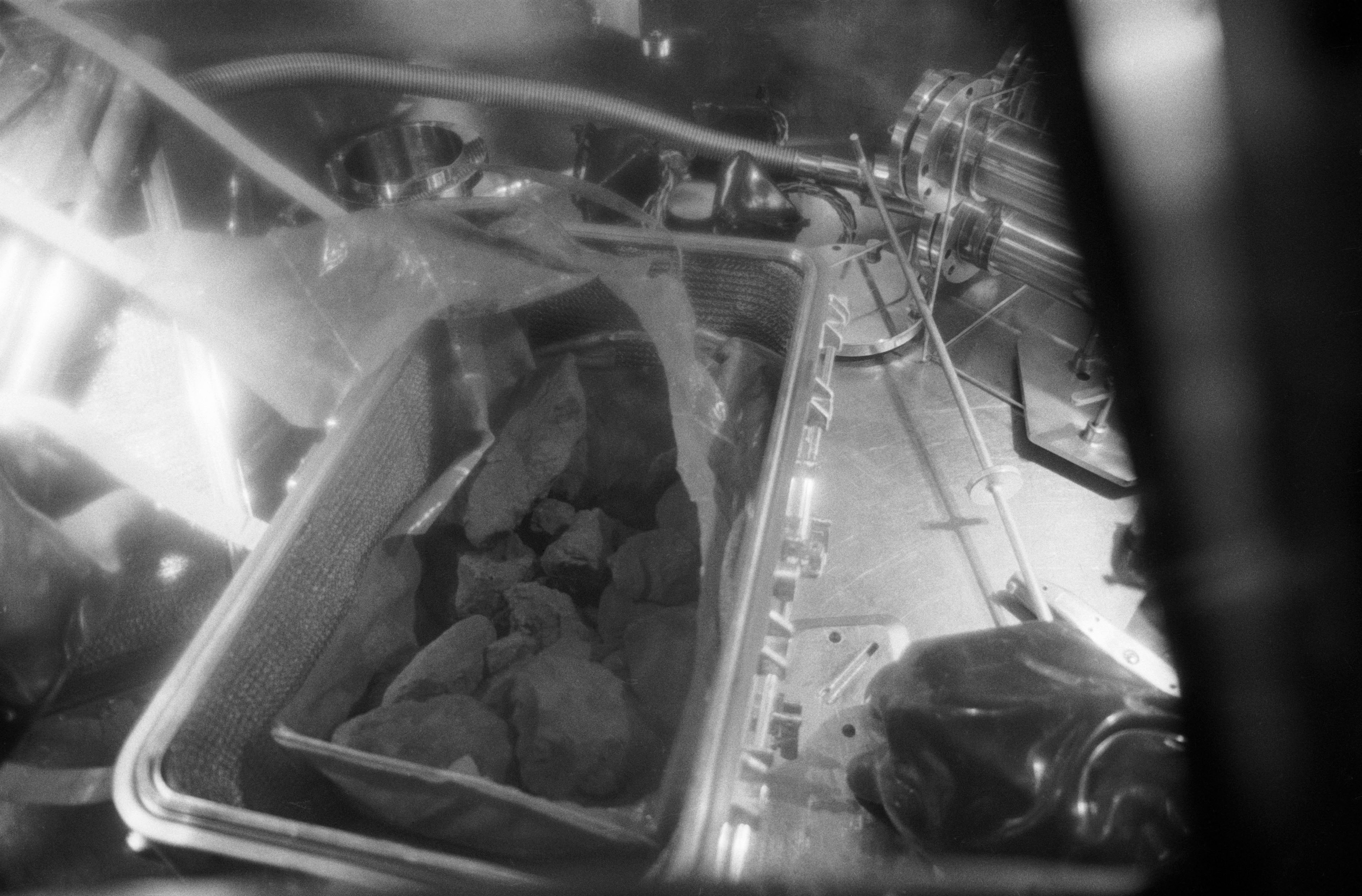 Return Sample Container in Lunar Receiving Laboratory